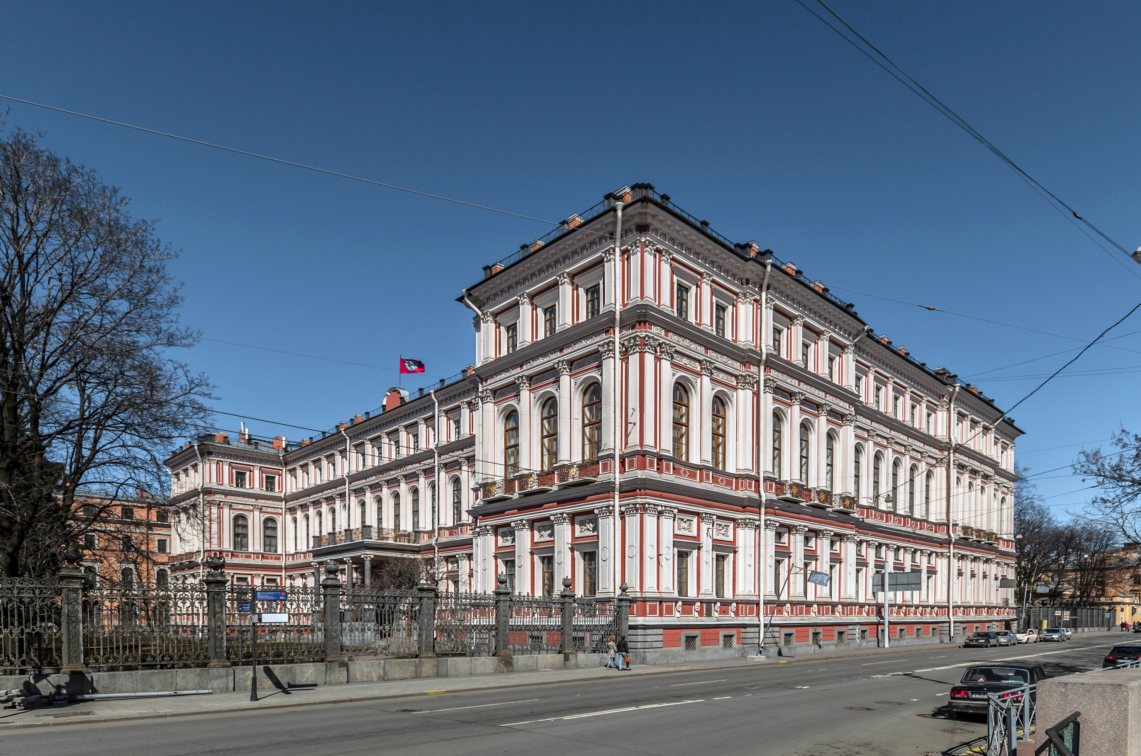 Nicholaevsky palace (Labour palace) in Saint Petersburg